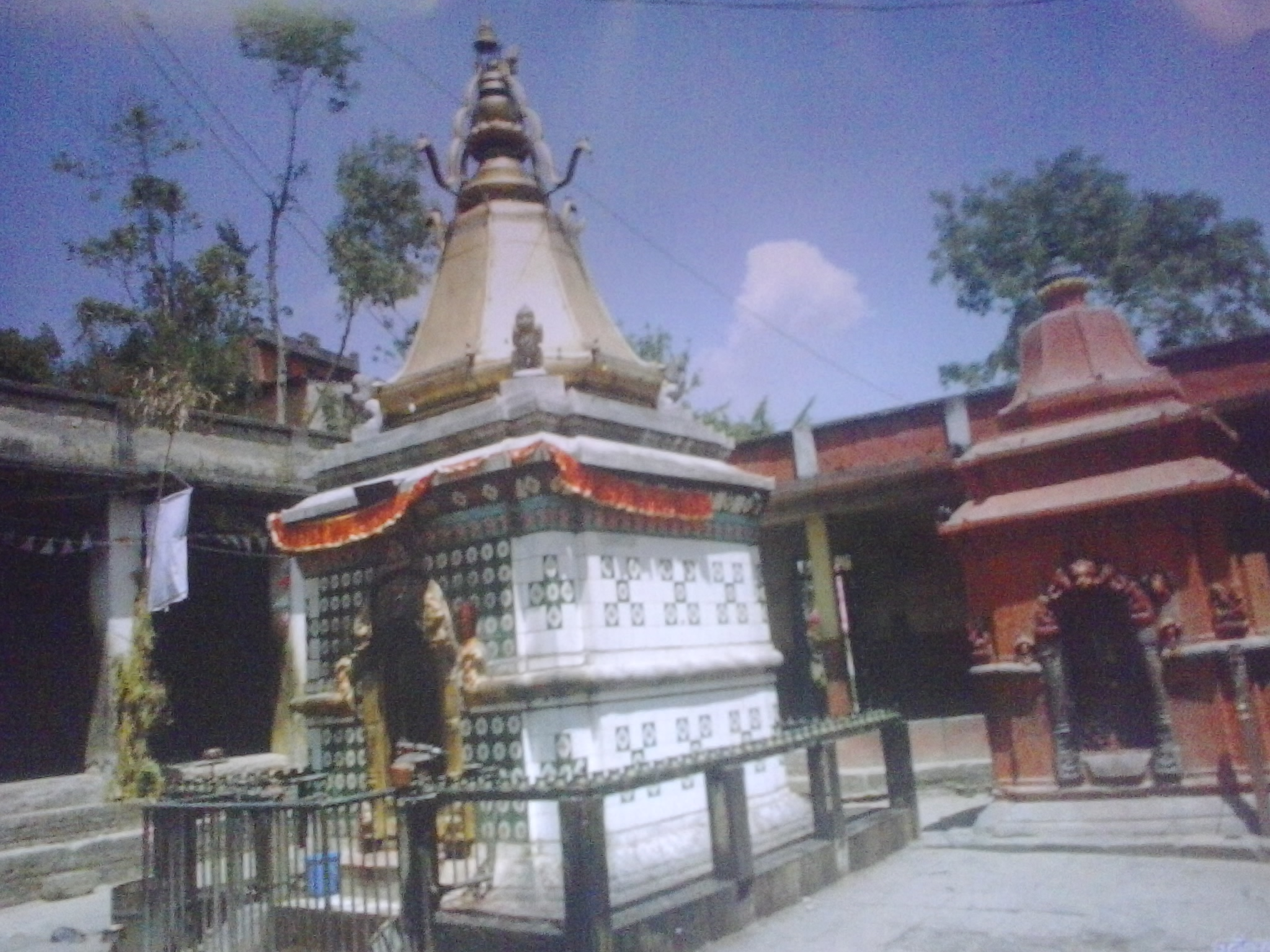 This is an image of Dhaneshwor temple of Nepal.